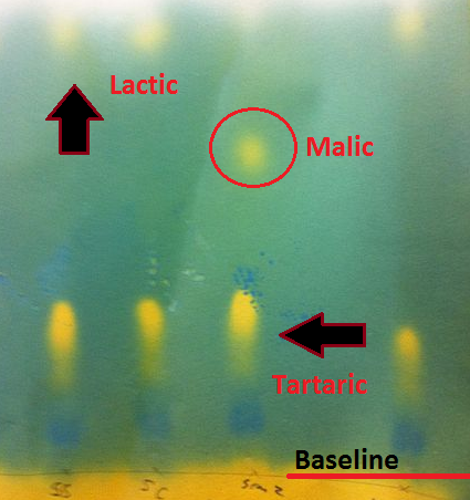 A paper chromatography result sheet showing that one wine that was spotted in the test has not completed malolactic fermentation. This is indicated by the presence of a yellow spot in the middle of the row which shows that malic acid is still present in the wine. If the wine had completed MLF, there would only be yellow spots on the bottom of the page (indicating tartaric acid) and at the top (indicating lactic acid which is what the malic acid in the wine is converted to by the MLF bacteria).